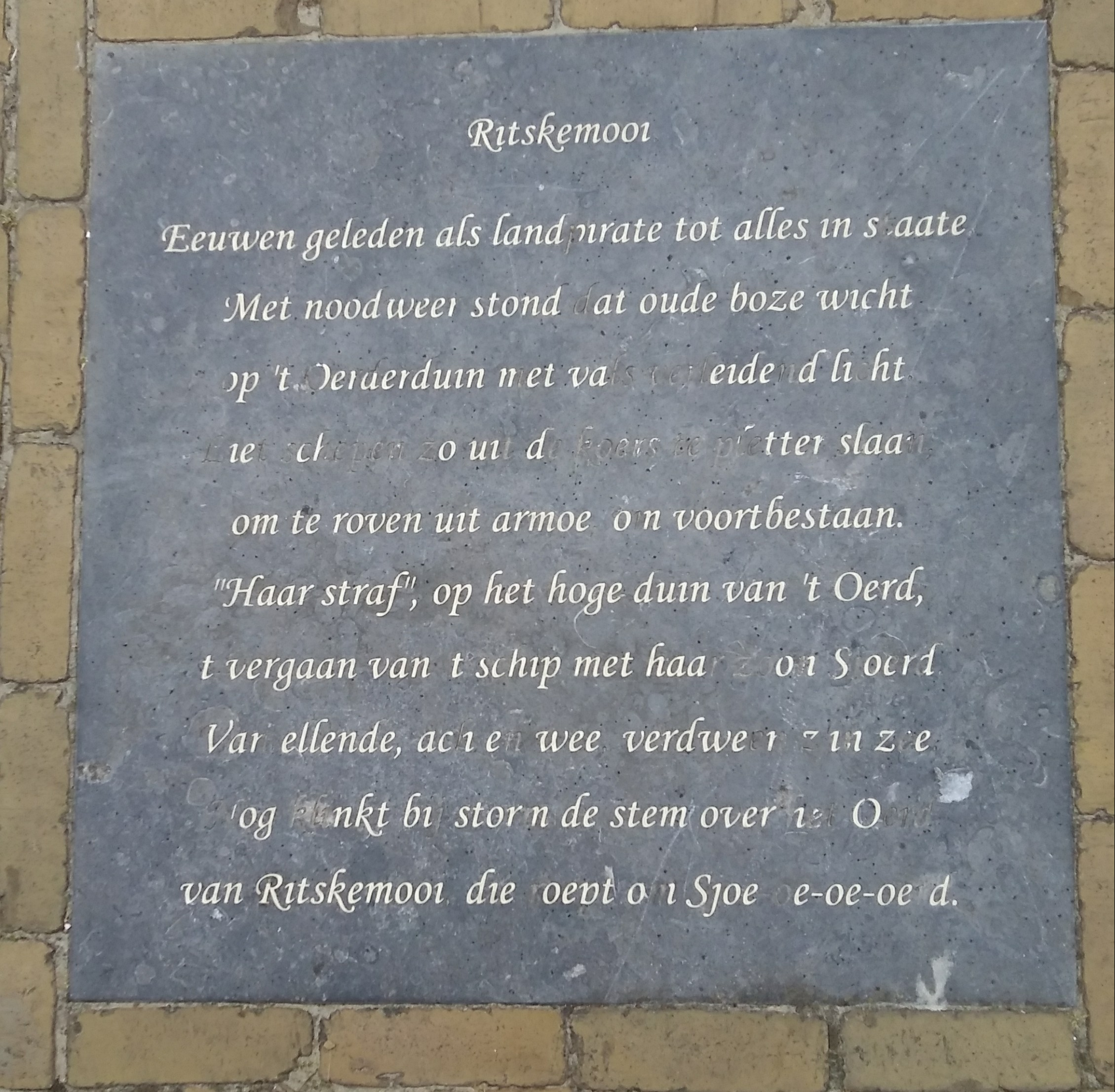 Picture of the saga of Ritske Mooi